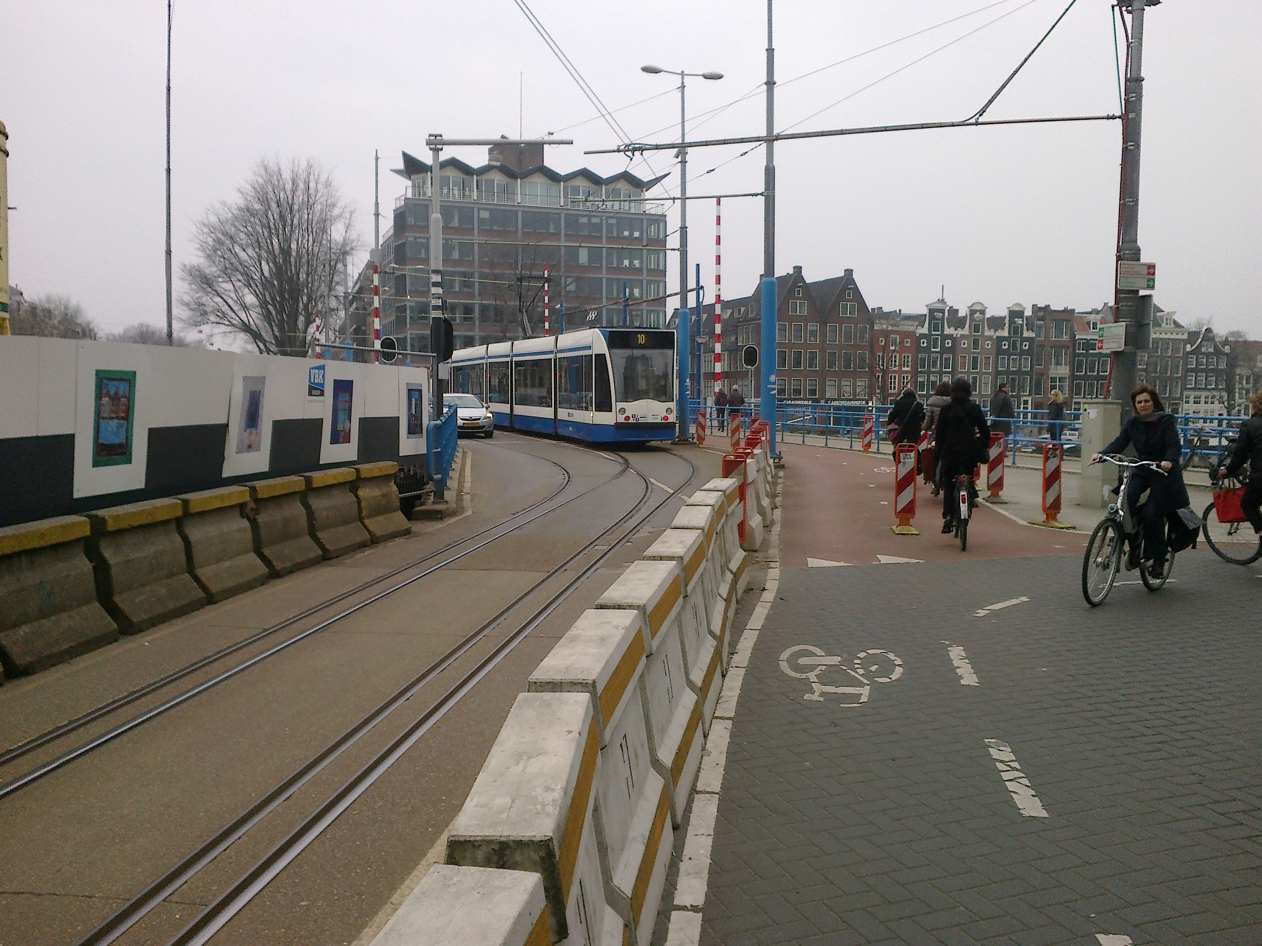 A no. 10 tram on the interleaved track on the temporary bridge at Hoge Sluis, Amsterdam, on 3 March 2012